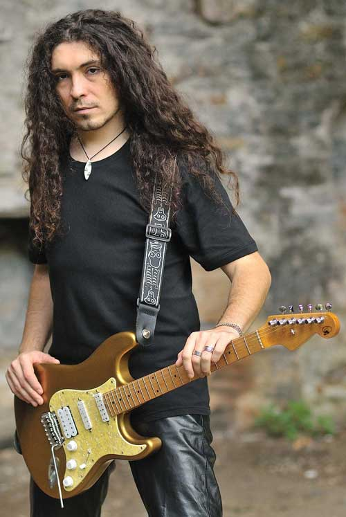 Pier Gonella